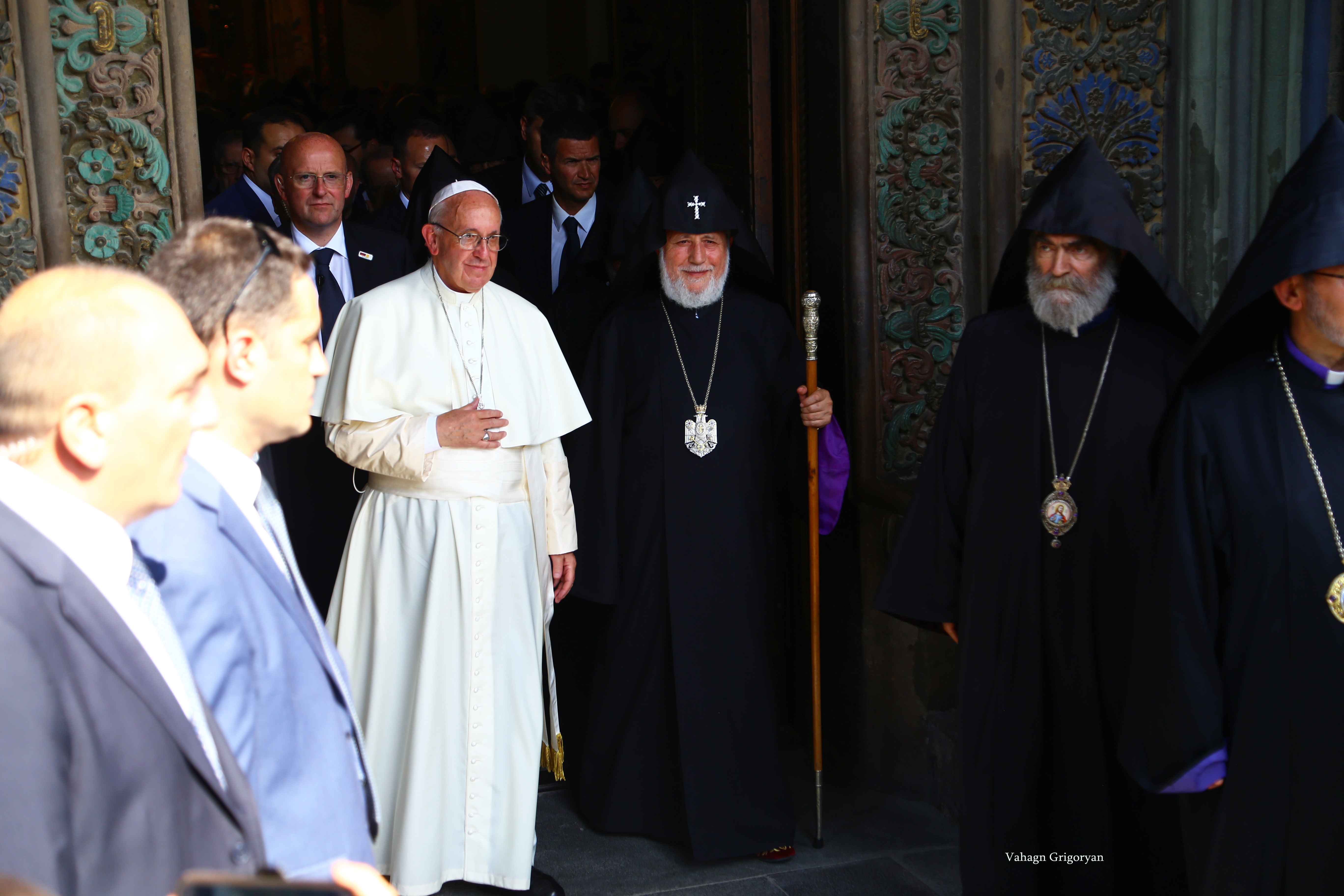 papa roma